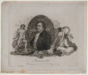 Engraving Anton Bemetzrieder (1772-1817)